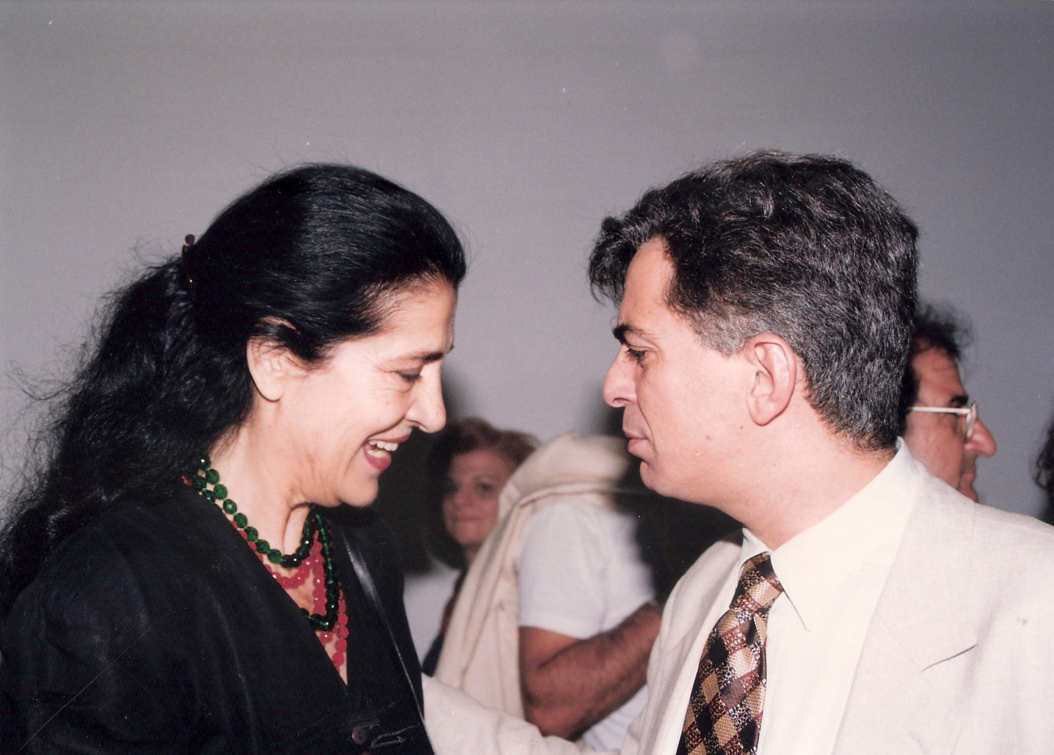 Aimilios Metaxopoulos with Irene Papas. Date unknown.